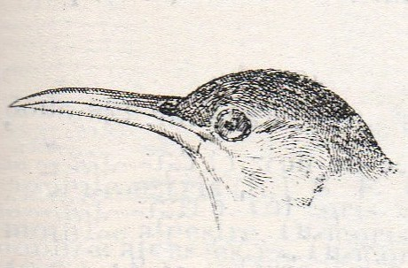 Dupont's Lark (Chersophilus duponti)